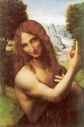 Saint John the Baptistlabel QS:Len,"Saint John the Baptist"label QS:Lpl,"Święty Jan Chrzciciel"